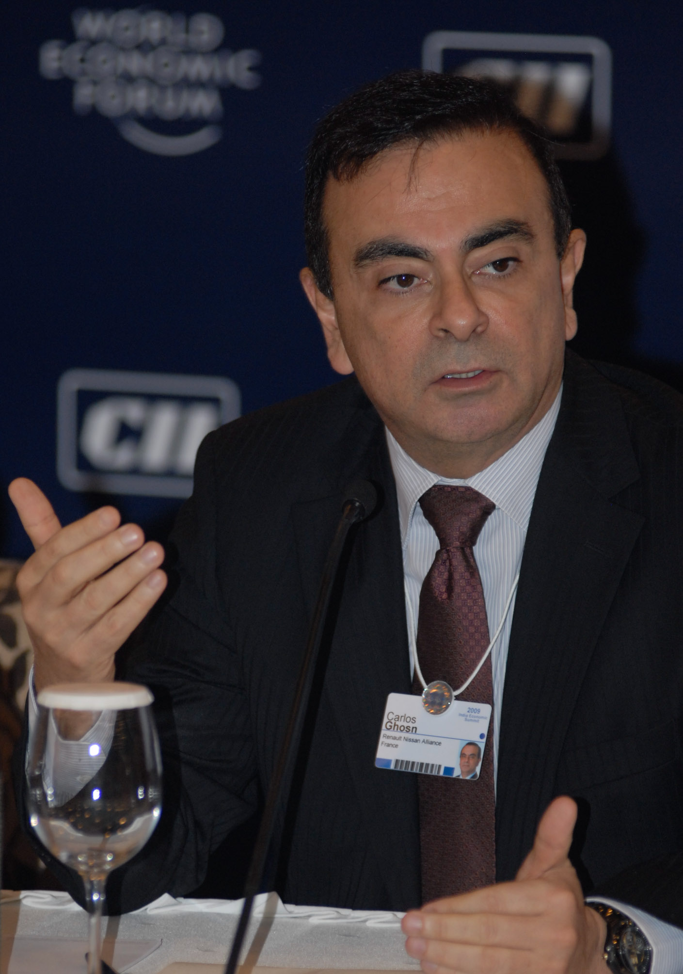 NEW DELHI/INDIA, 08NOV09 - Co-Chair Carlos Ghosn captured during the World Economic Forum's India Economic Summit 2009 held in New Delhi, 8-10 November 2009. Copyright (cc-by-sa) © World Economic Forum ( Matthew Jordaan )